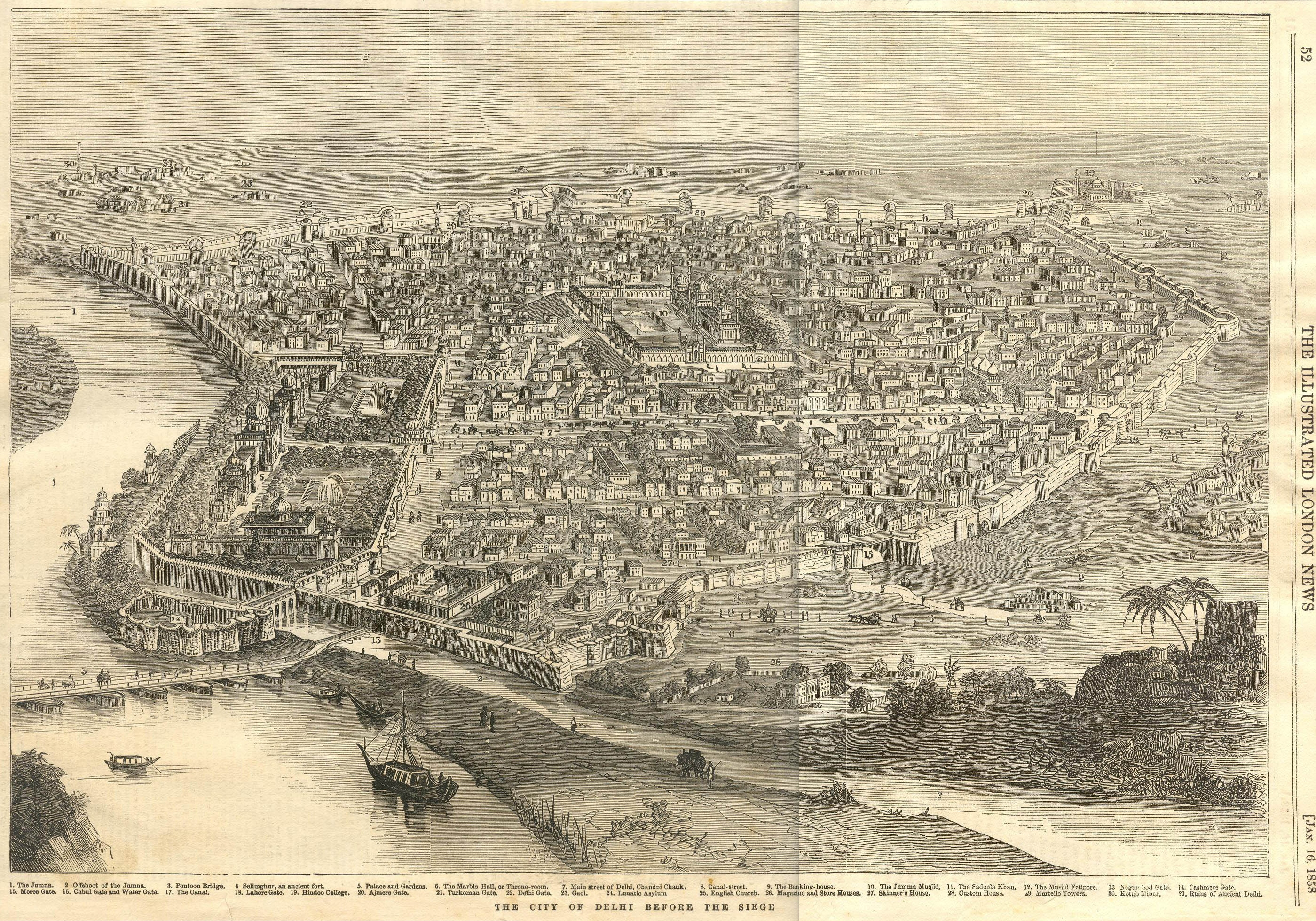 The City of Delhi Before the Siege - The Illustrated London News Jan 16, 1858. Collectors & Collection: One original engraving is displayed in the Red Fort Museum , New Delhi. The original engraving is also part of Anshul Kaushik's History Collection.